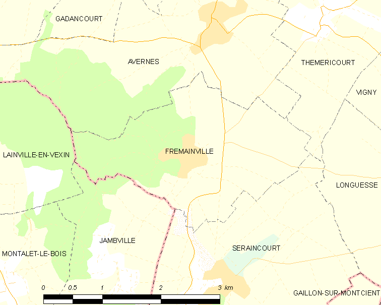 Map of French municipality Frémainville